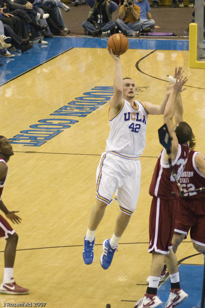 Kevin Love of UCLA against Washington State.